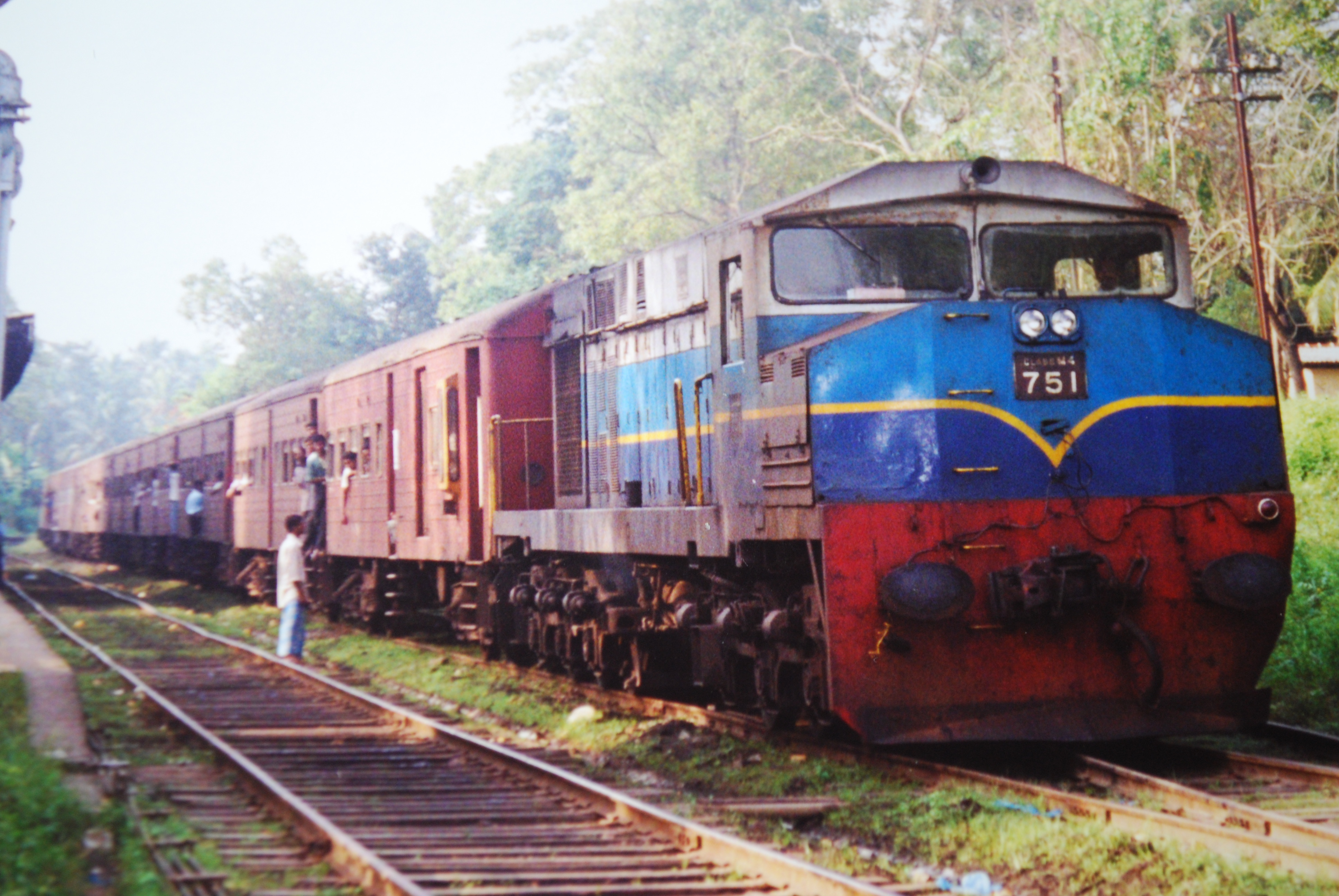 Sri Lankan train,Northern Line,Sri Lanka